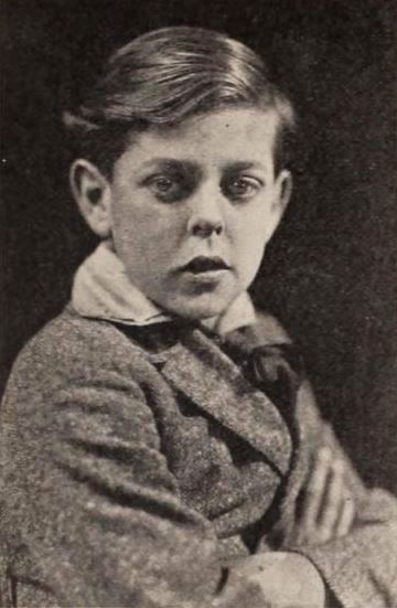 Child actor Edward Peil Jr., who was often credited as Johnny Jones, on page 59 of the April 30, 1921 Exhibitors Herald.